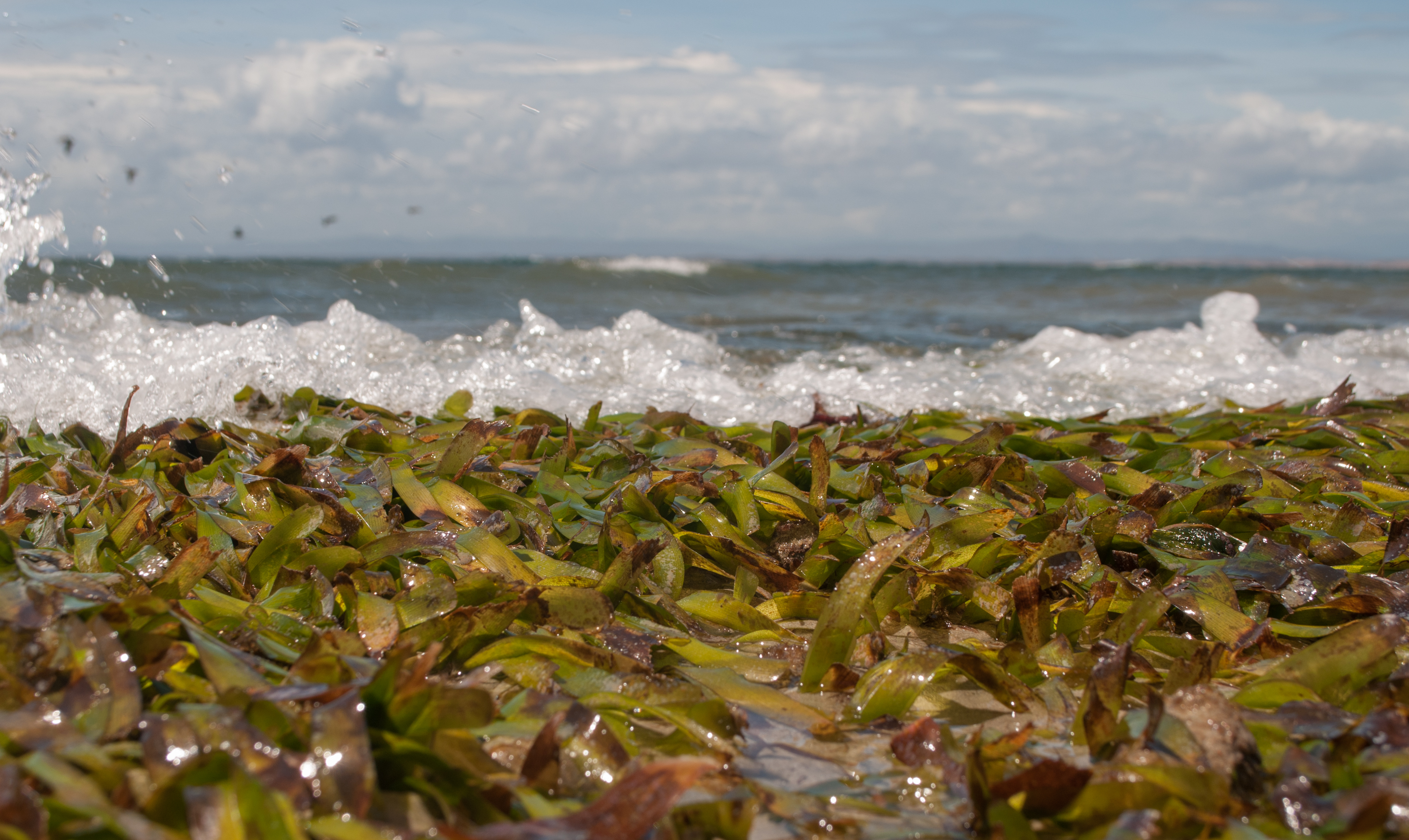 Thalassia testudinum in El Manglillo Beach from Maragita island, Nueva Espata state - Venezuela